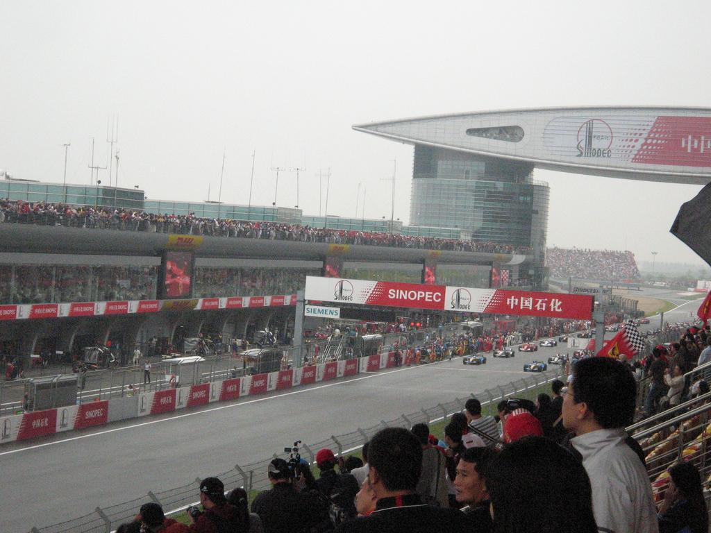 Start China 2006